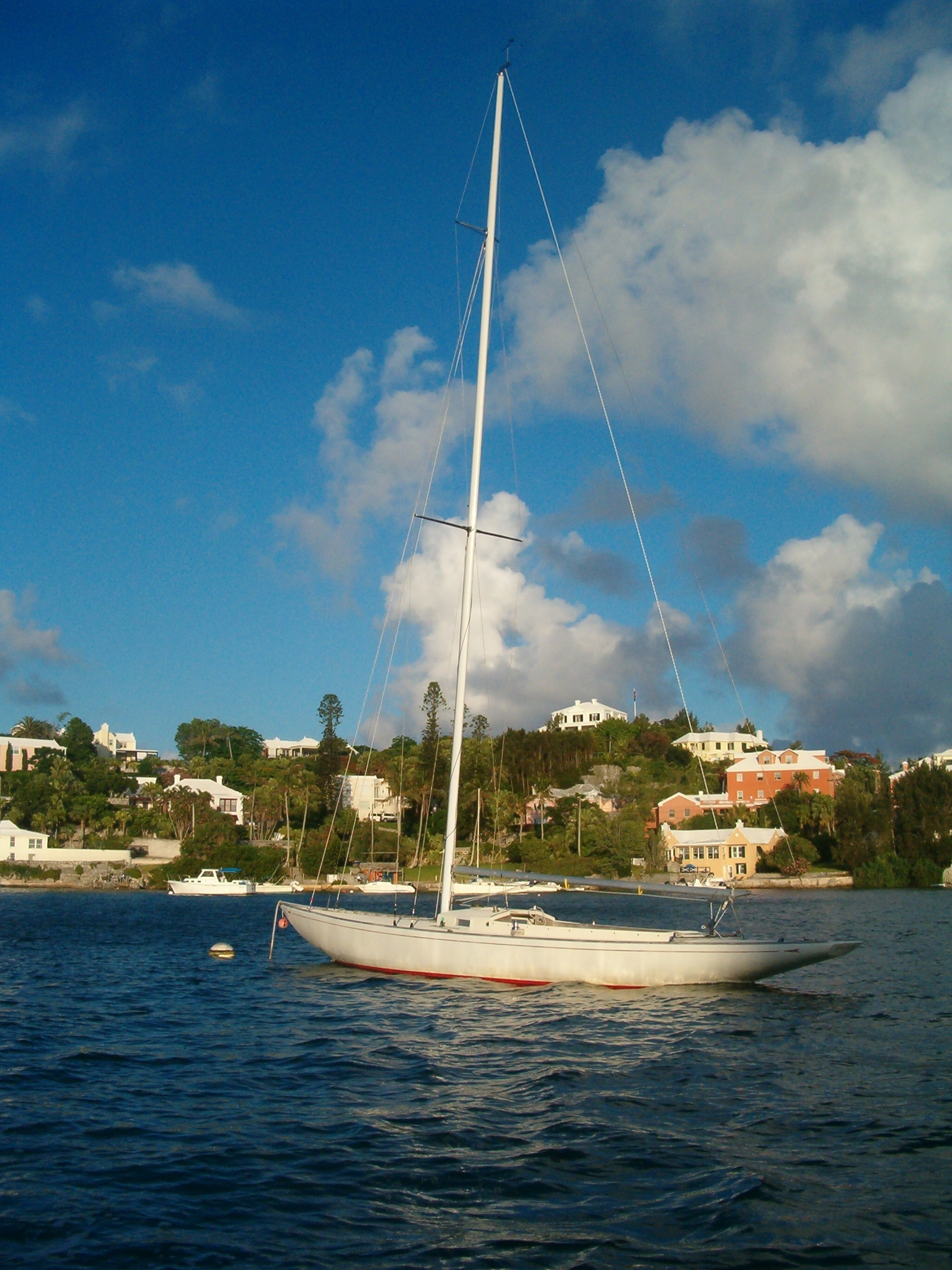 The International One Design racing sloop "Bounty", on a mooring in Soncy Bay, Hamilton Harbour, Bermuda, with the north shoreline of Paget, Bermuda, in the background.